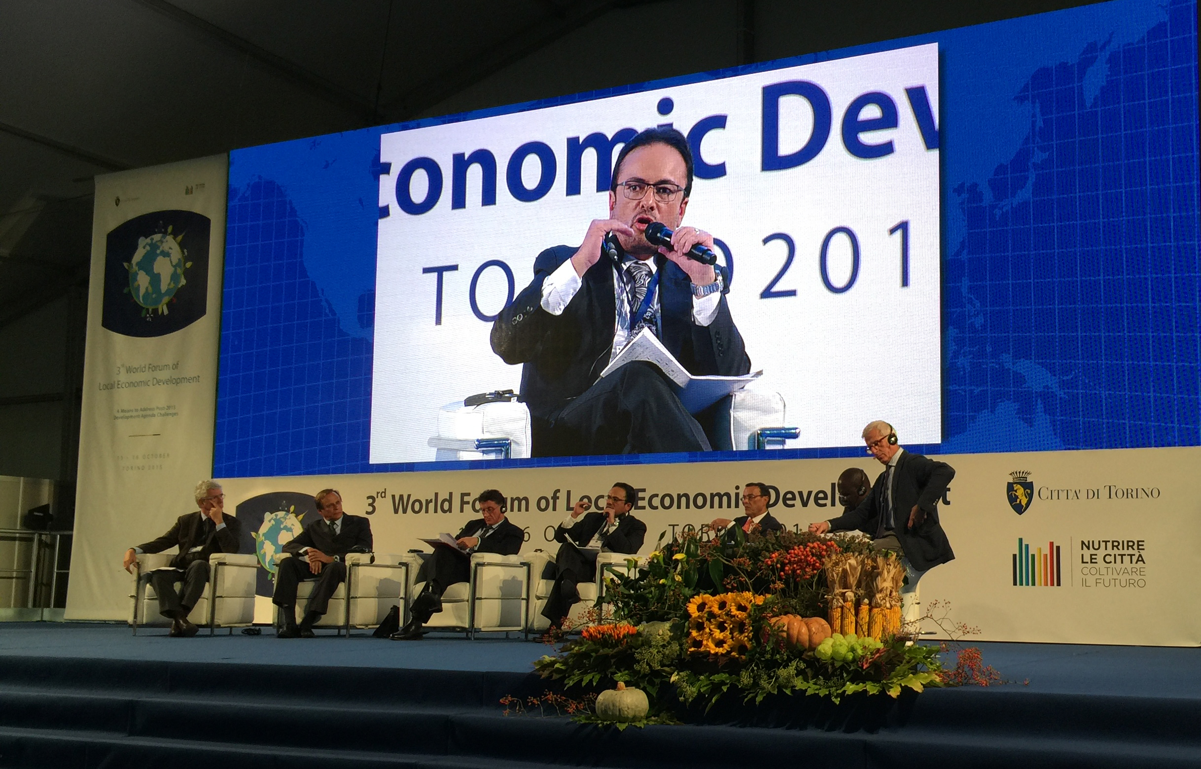 ORU’s President, Paul Carrasco, in the third World Forum of Local Economic Development (LED) in Turin, in October 2015